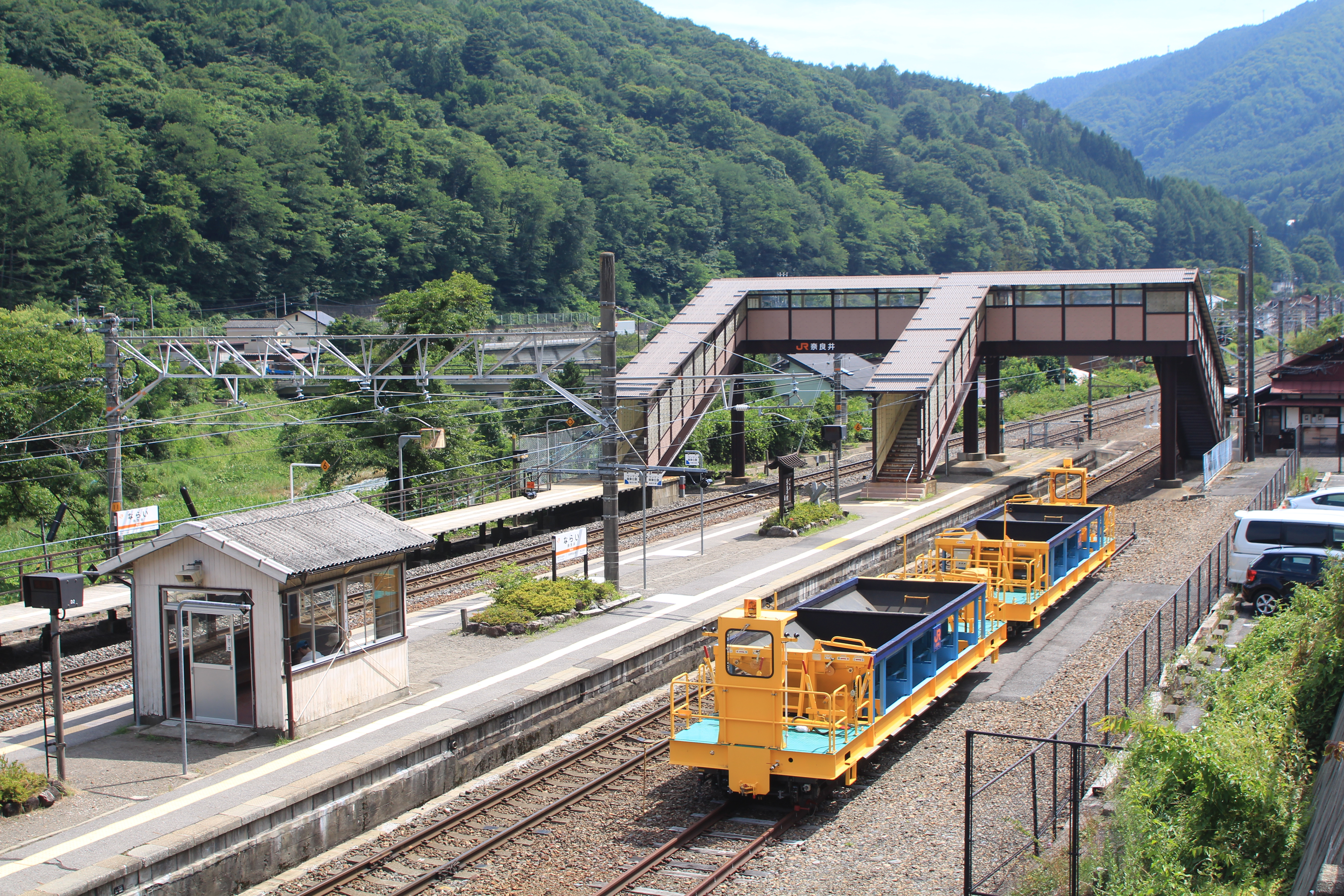 Narai Stationon Chūō Main Line of Central Japan Railway Company in Shiojiri, Nagano Prefecture, Japan.